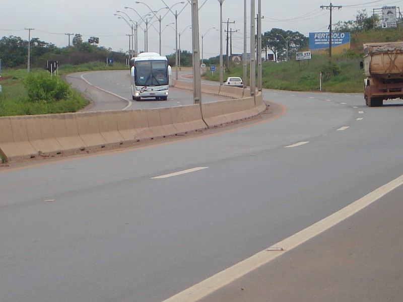 Federal road BR-364, near Porto Velho, Rondônia, Brazil.